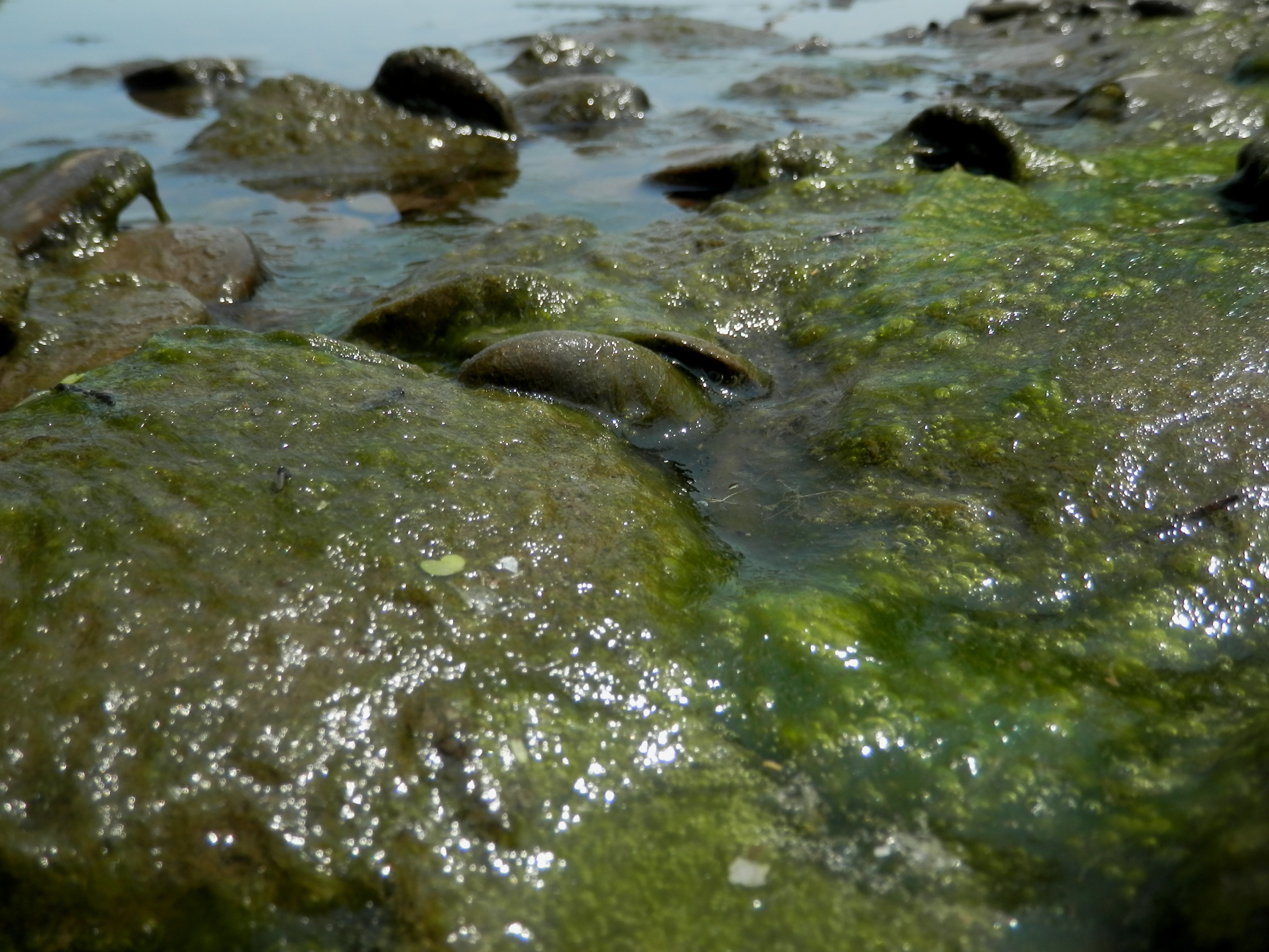 Algae on rocks in Missisauga, Ontario, Canada.